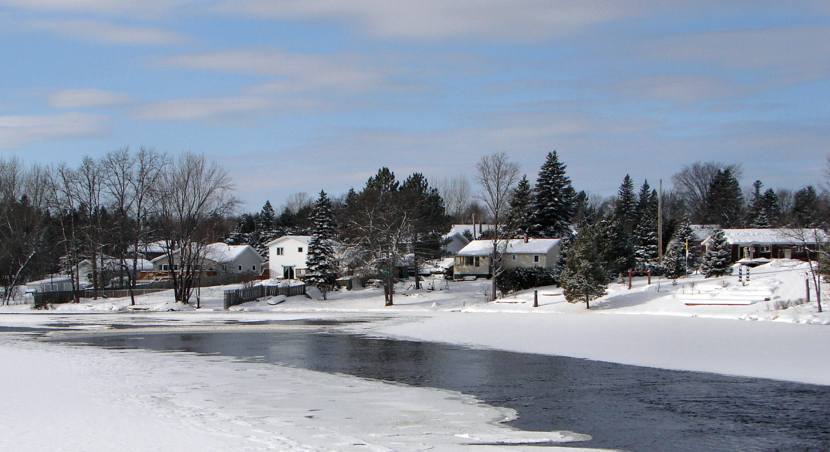 Naughton (Greater Sudbury municipality), Ontario, Canada